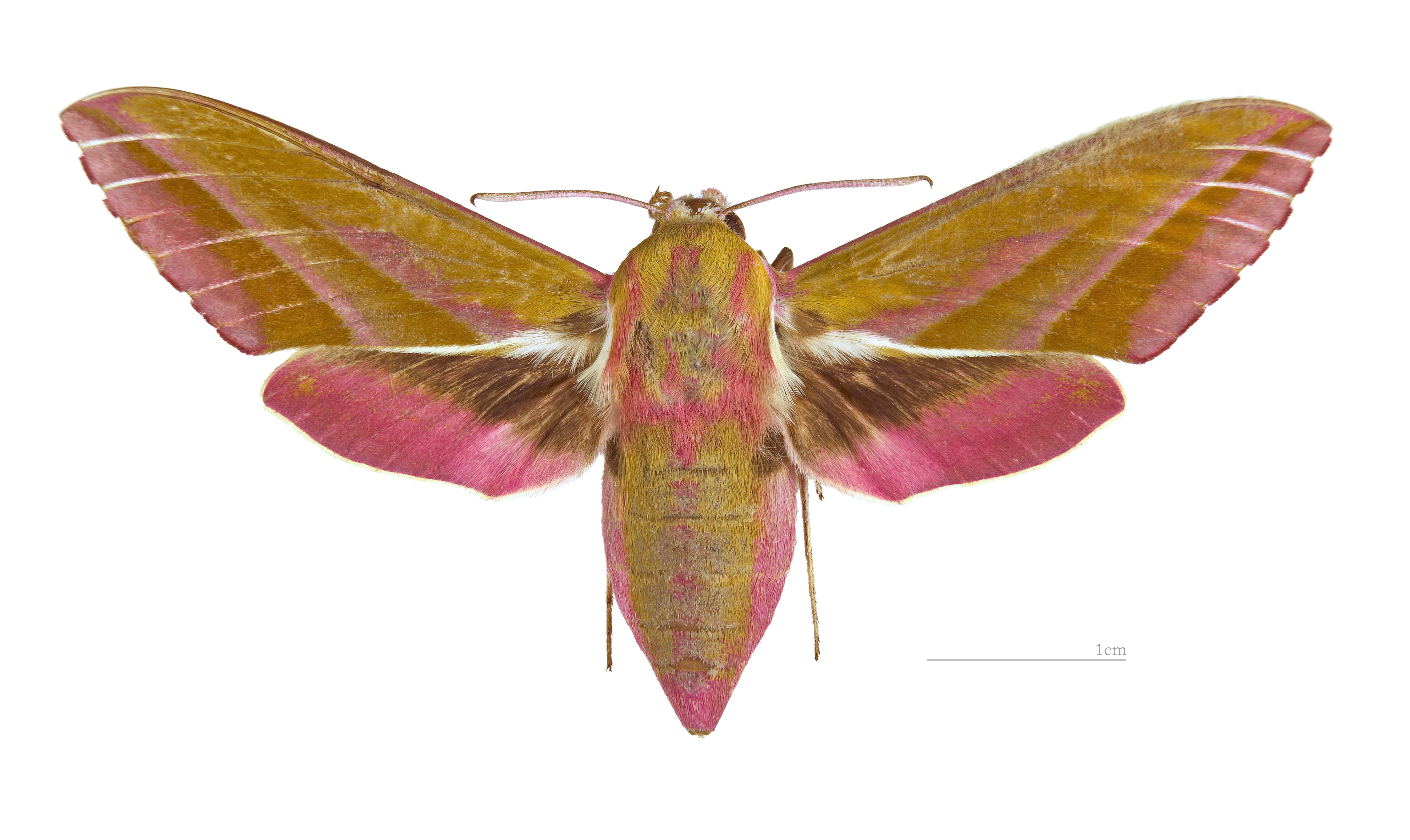 Elephant Hawk-moth - Dorsal side